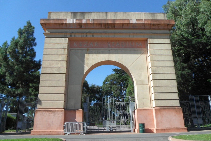 A replication of the arch that was part of the original Kezar Stadium.